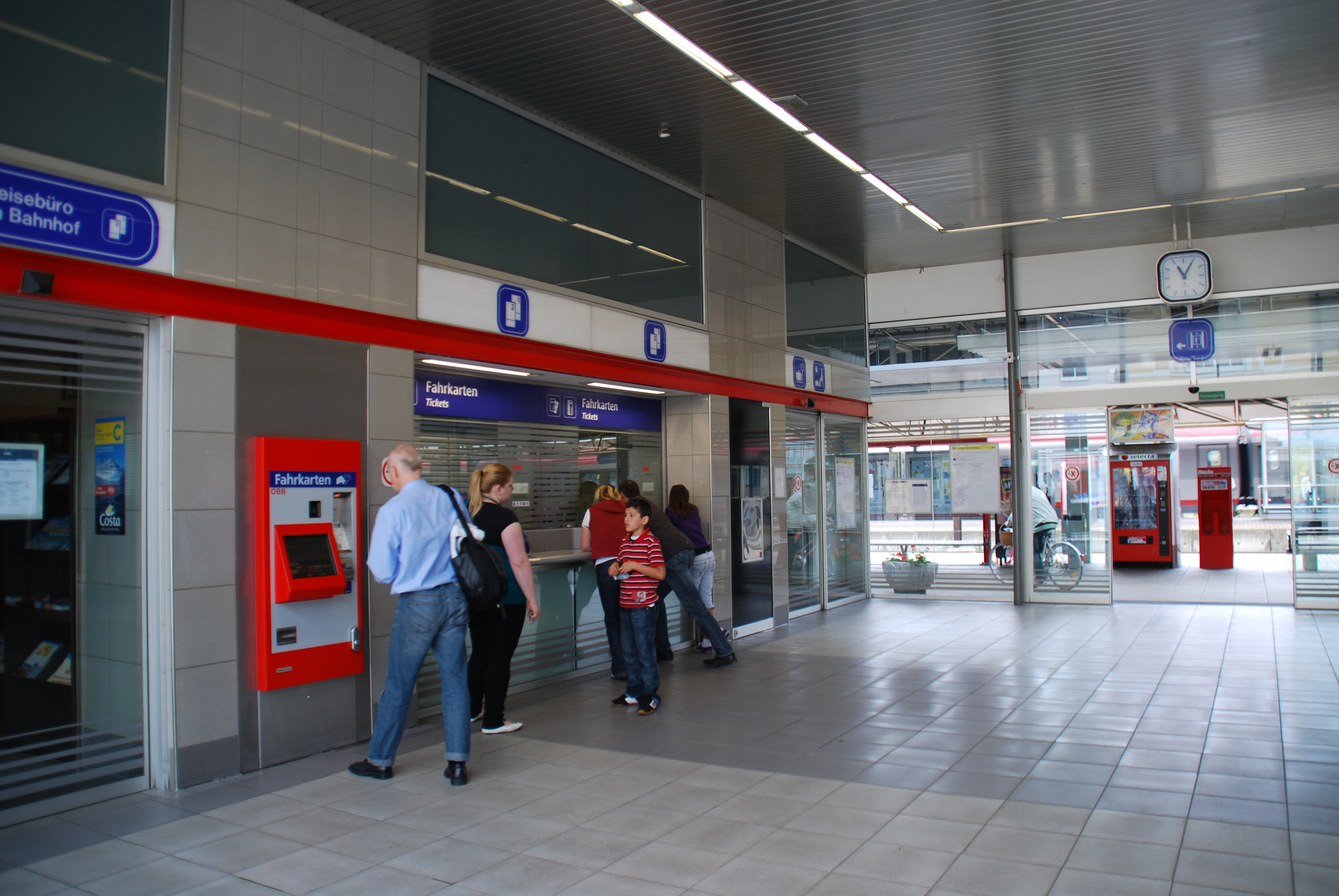 Train Station Amstetten (Austria)